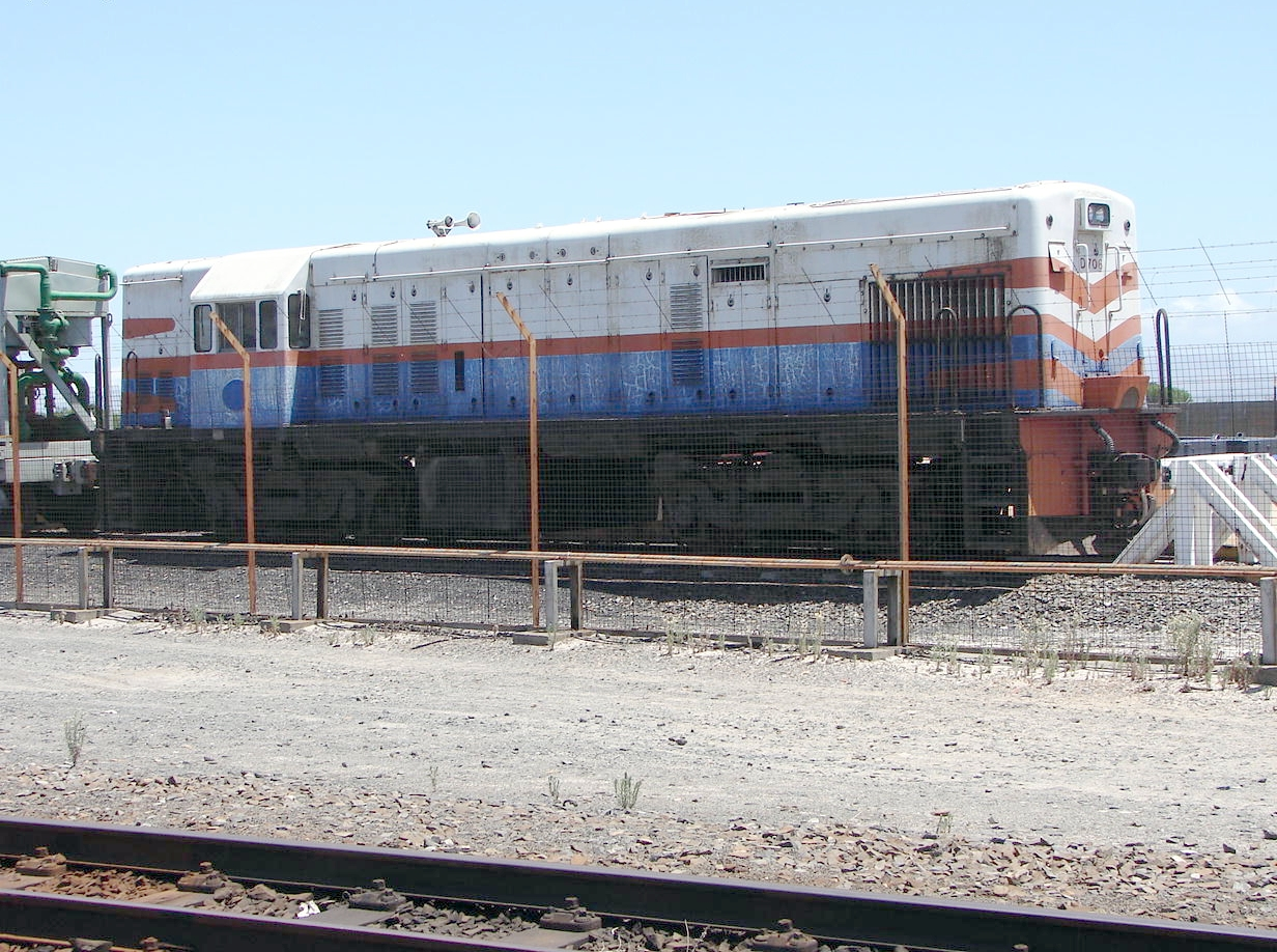 South African Class 31-000 31-007Builder's Number: GE 33513Type: GE U12BLocation: Bellville, Cape TownRenumbering: Renumbered from D706